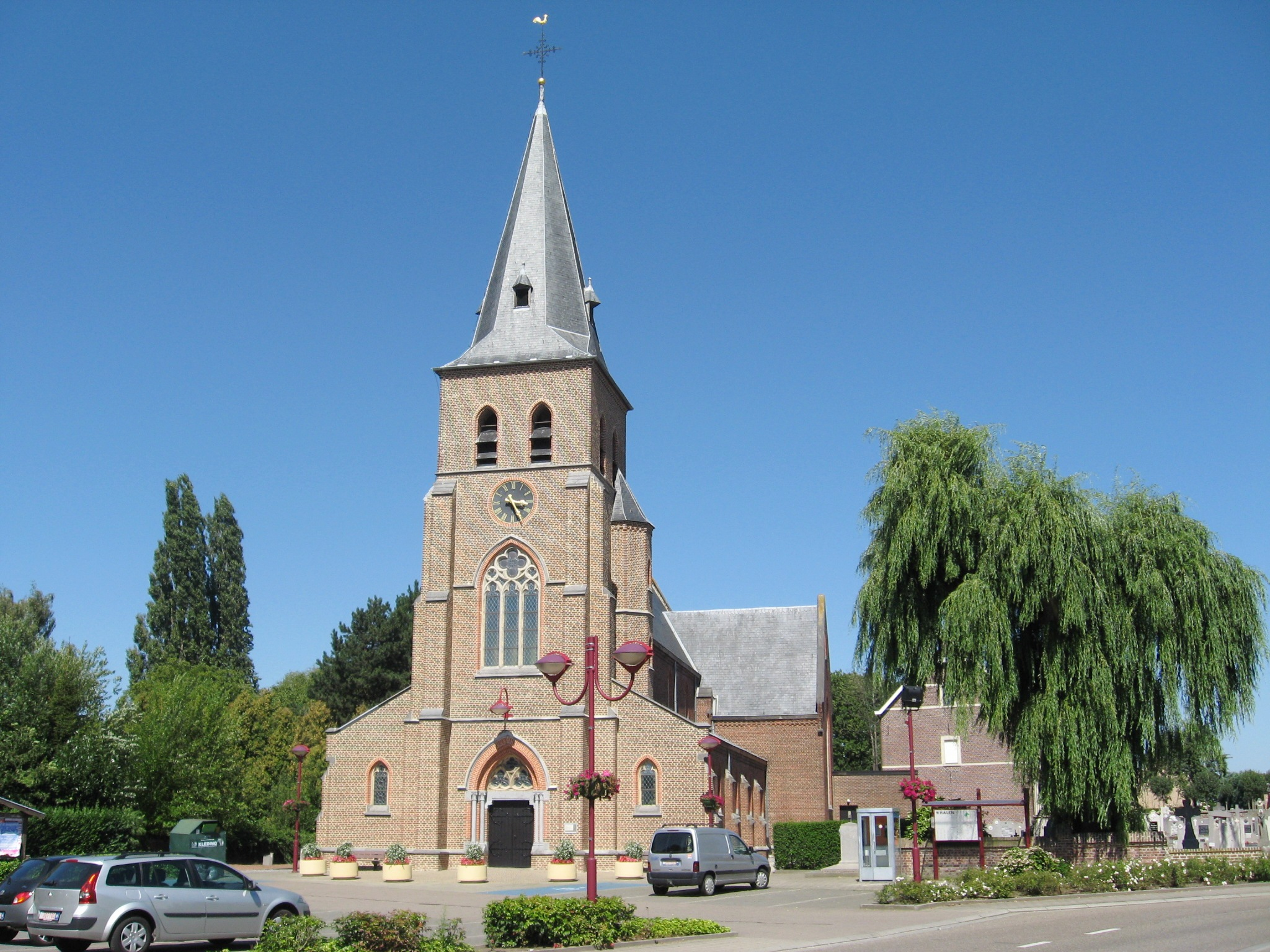 Church of Saint Andrew in Loksbergen, Halen, Limburg, Belgium